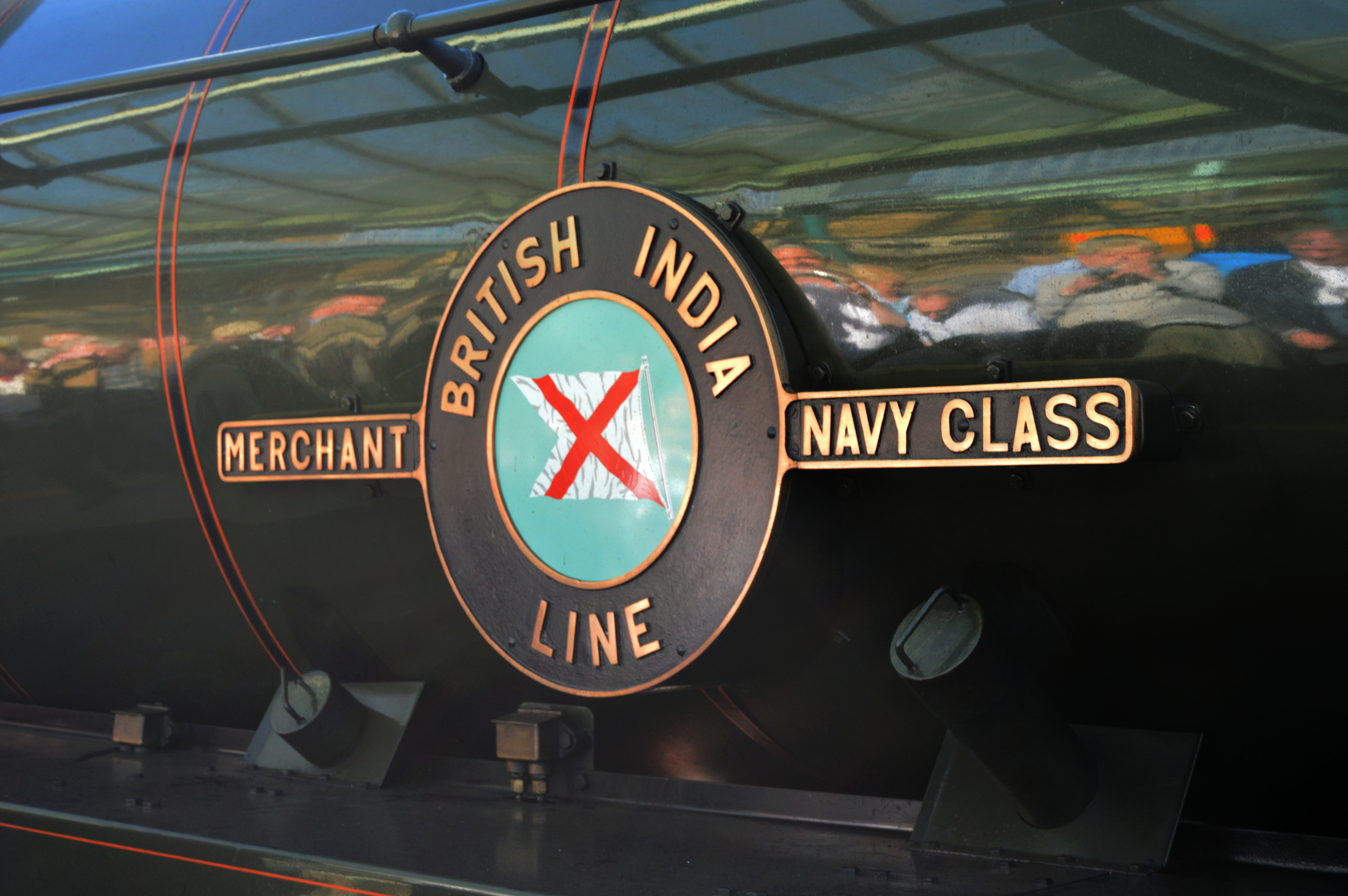 One of 35018's British India Line nameplates, after fooling people during her first test run with 34016 Bodmin's nameplates she now has her own fitted. She was in Carlisle Citadel after working the York to Carlisle leg of "The Great Britain XI" railtour on Fri 20th April 2018.